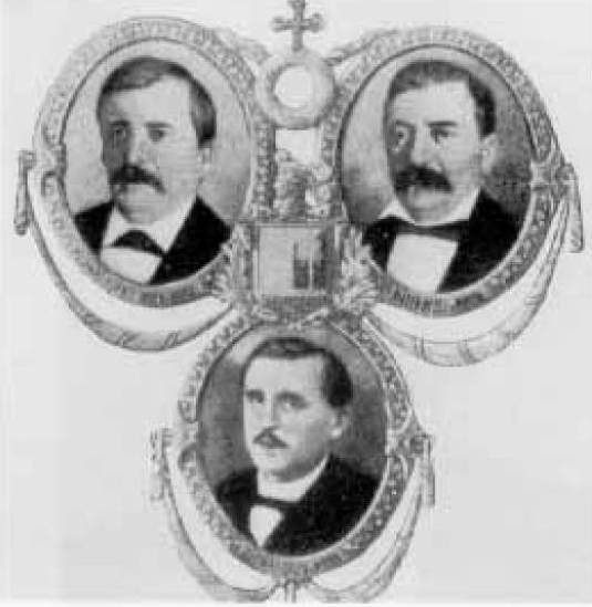 Orbea Brothers - Orbea S. Coop. founders